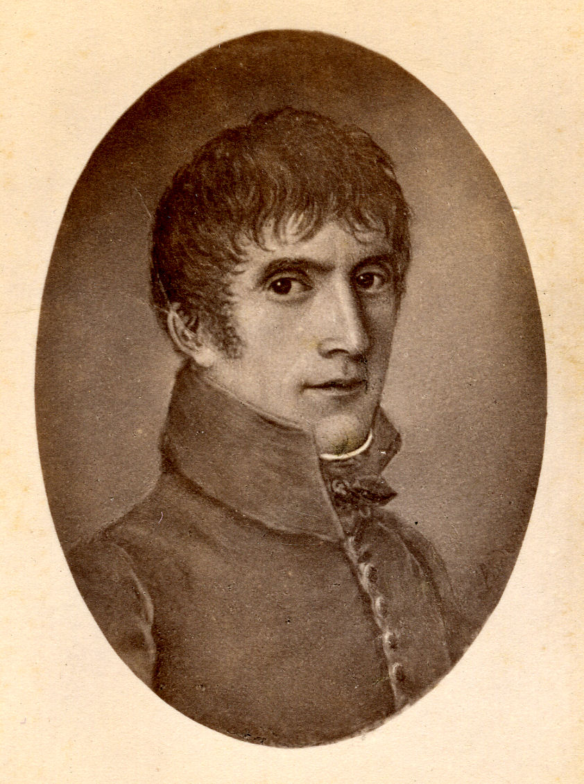 19th century photograph of a portrait of Johann Georg Kerner